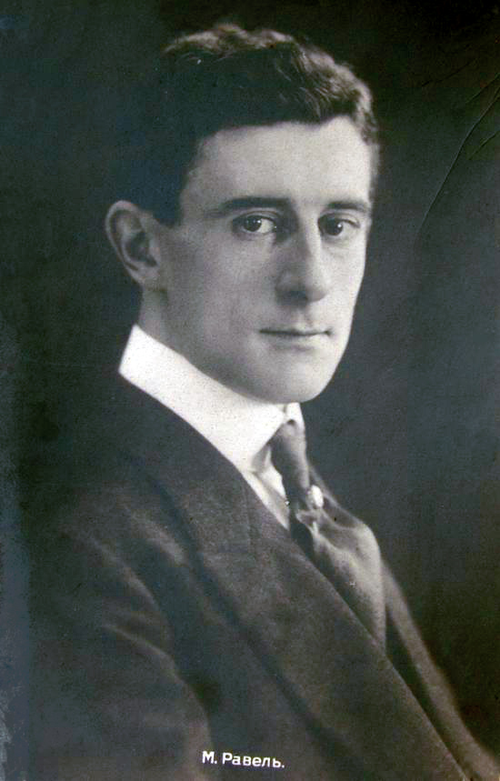 Postcard - 1910